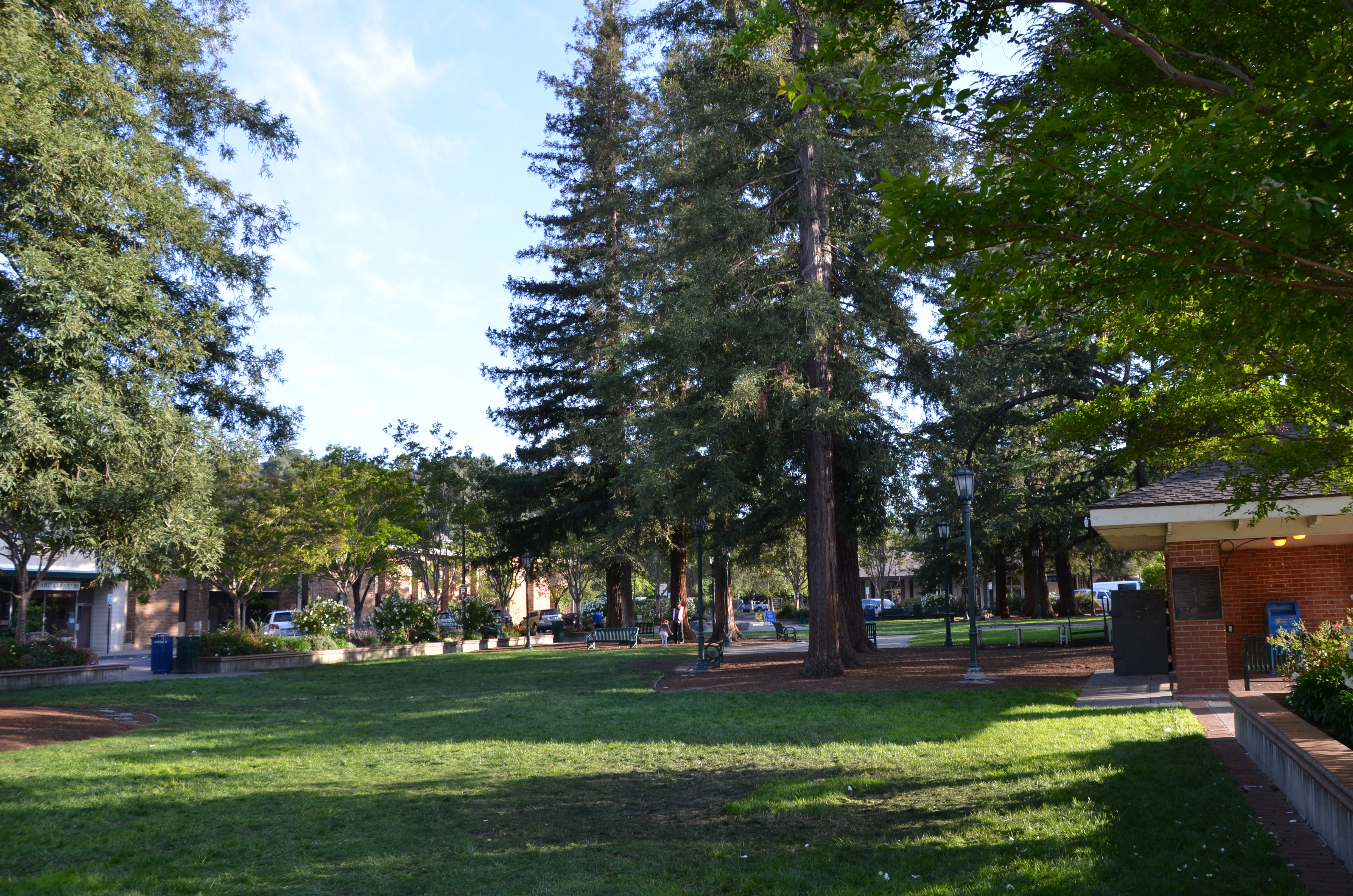 Park in downtown Los Gatos